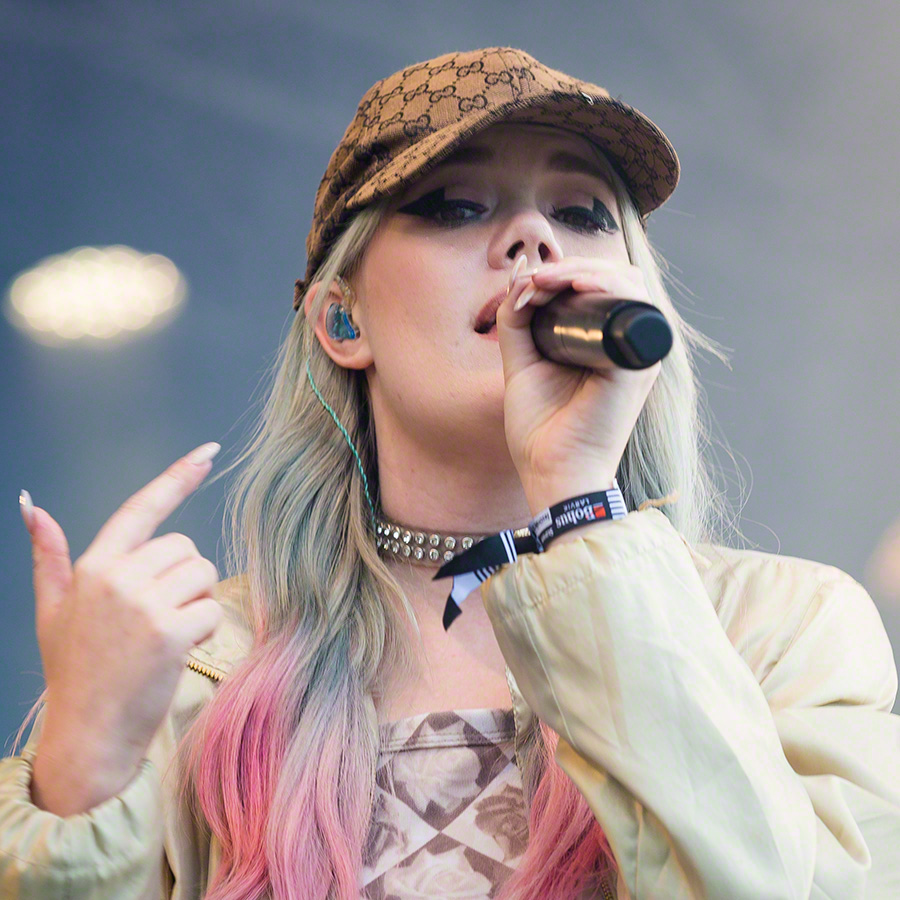 Little Jinder at the minor stage during Stavernfestivalen in Stavern on 07. July 2016. Lineup:Astrid Maria Josefine Jinder (vocal)Unidentified (drums)Unidentified (keyboard)Unidentified (vocal)Unidentified (vocal)